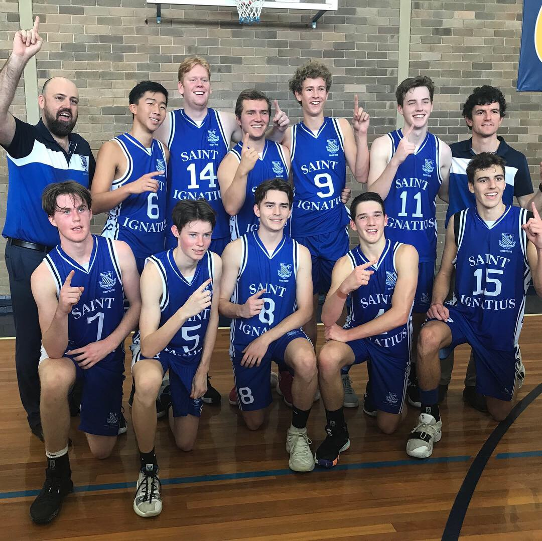 Championship winning 1st V